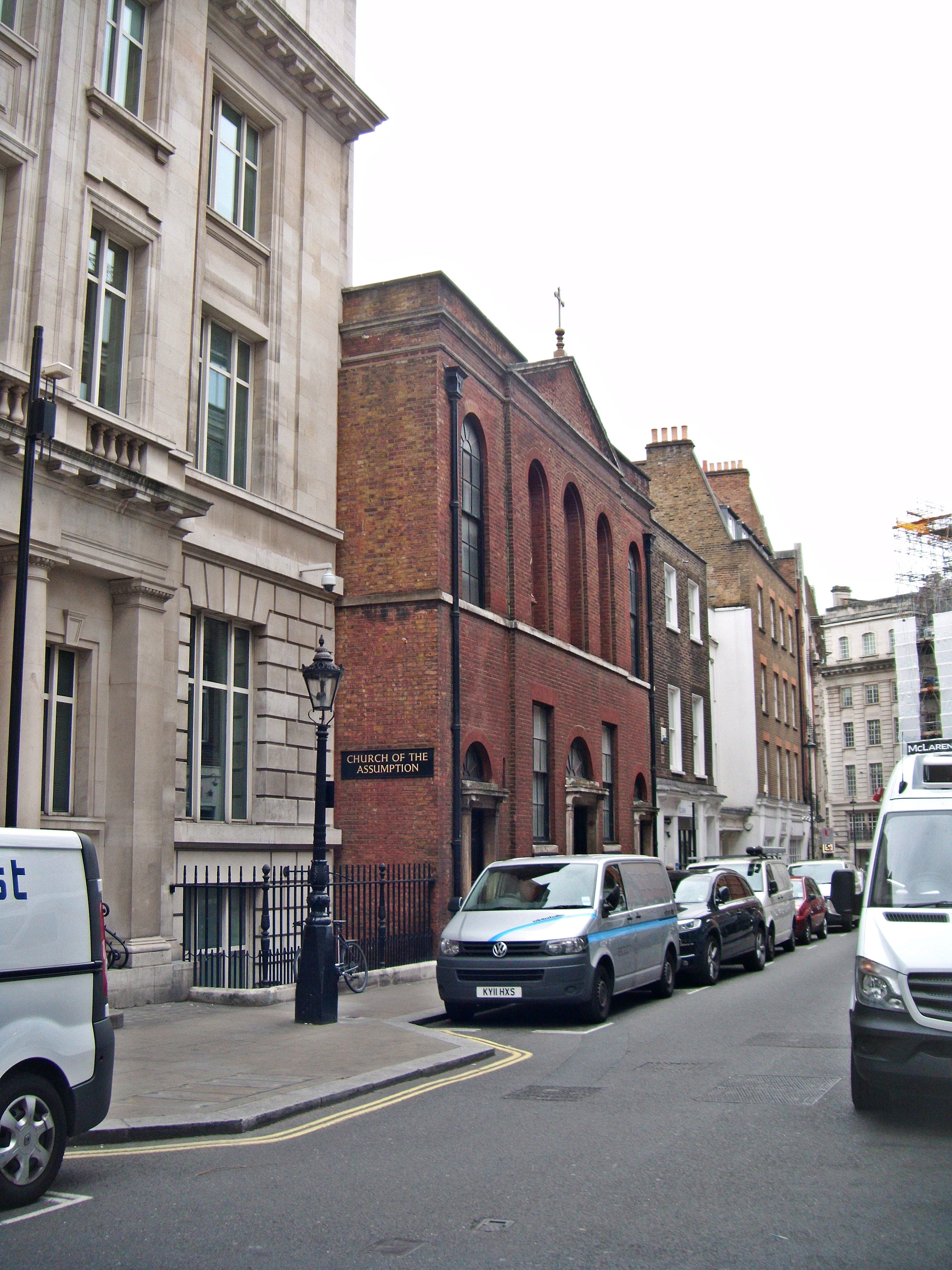 London Warwick Street Church